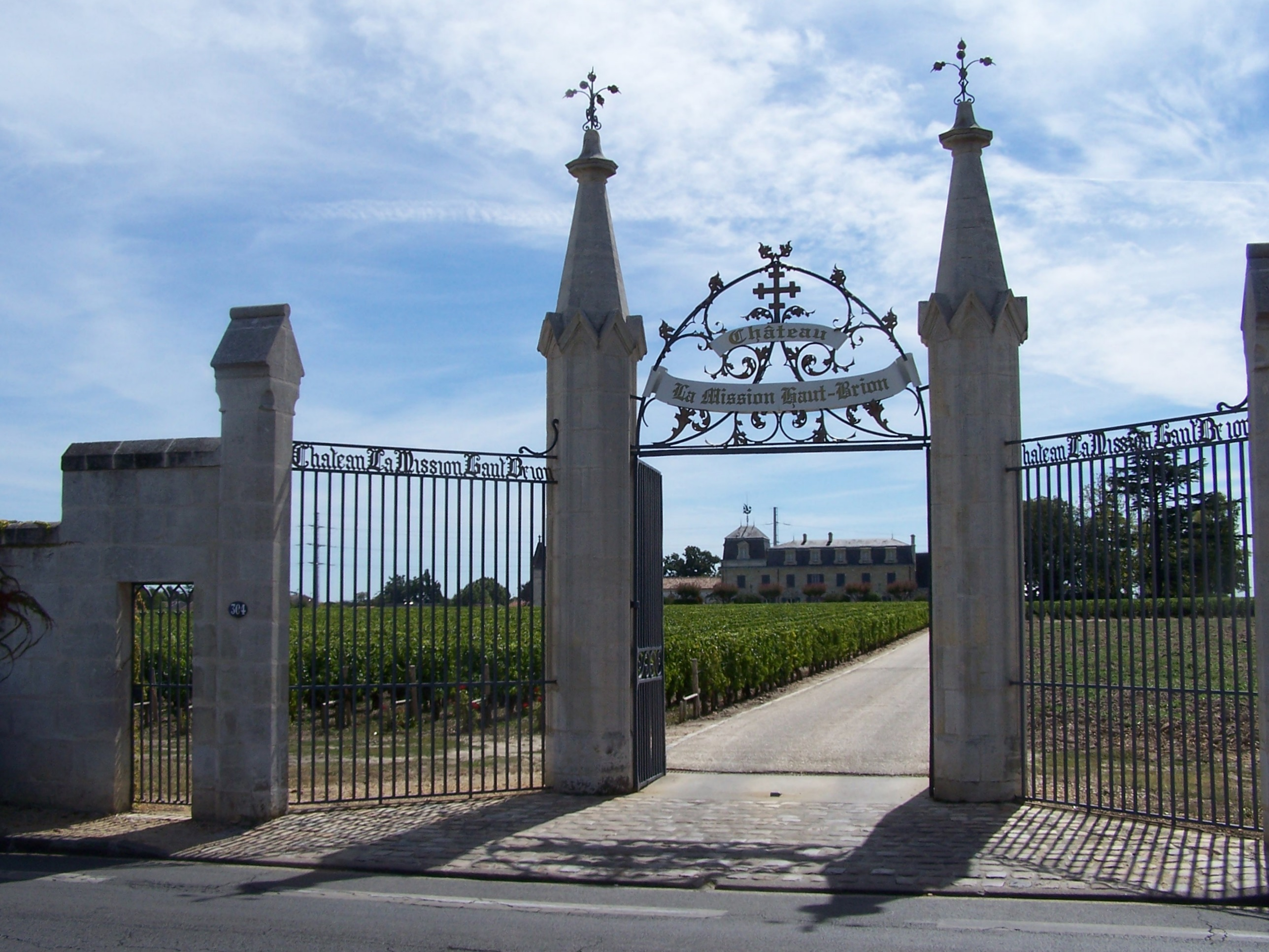 Entrance of the Château la Mission Haut-Brion in Pessac (Gironde, France)